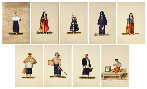 Tipos del País Illustrations (19th Century Watercolor) by Justiniano Asuncion